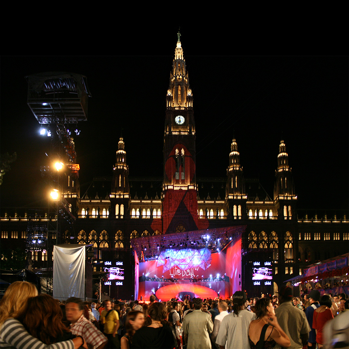 Life Ball 2007 at the Rathausplatz in Vienna, Austria.